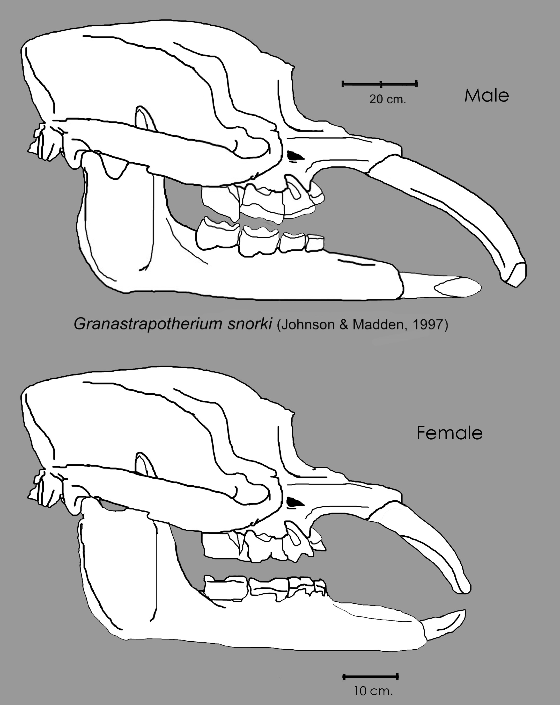 Schematic drawing of the skull of Granastrapotherium snorki, based in Johnson, 1984, showing the differences between the male and female of this species.